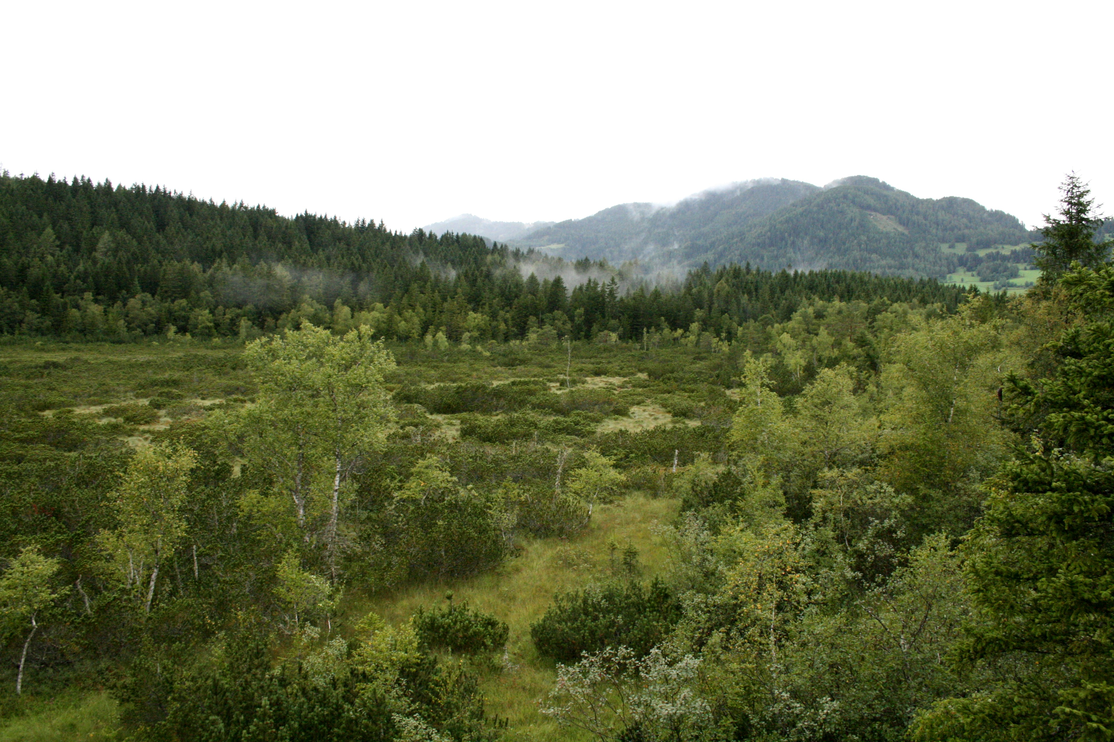 Dürnberger Moor in Mariahof, Styria, Austria